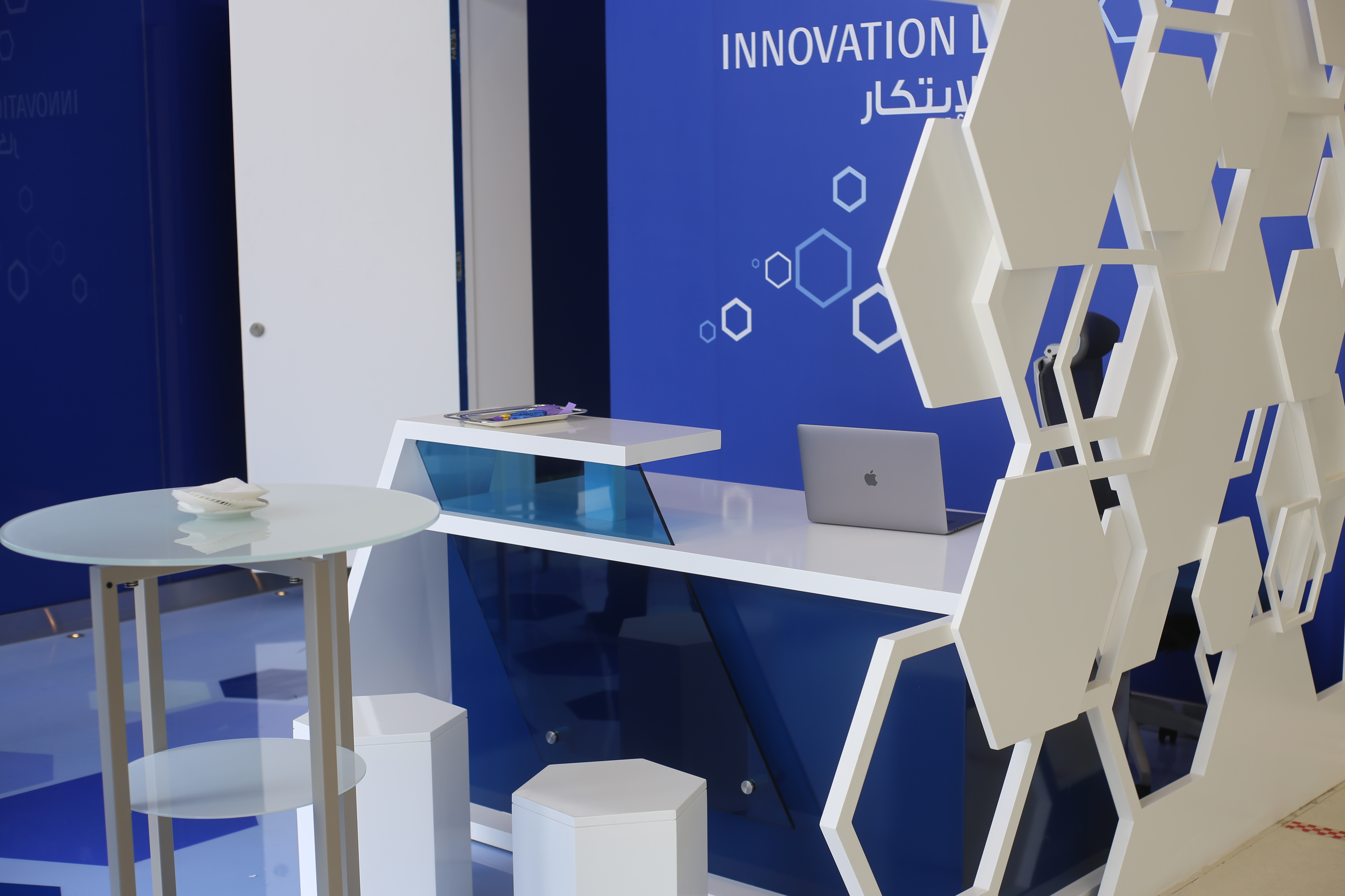 A picture from Al Rajhi's inauguration of the I-Lab in Riyadh